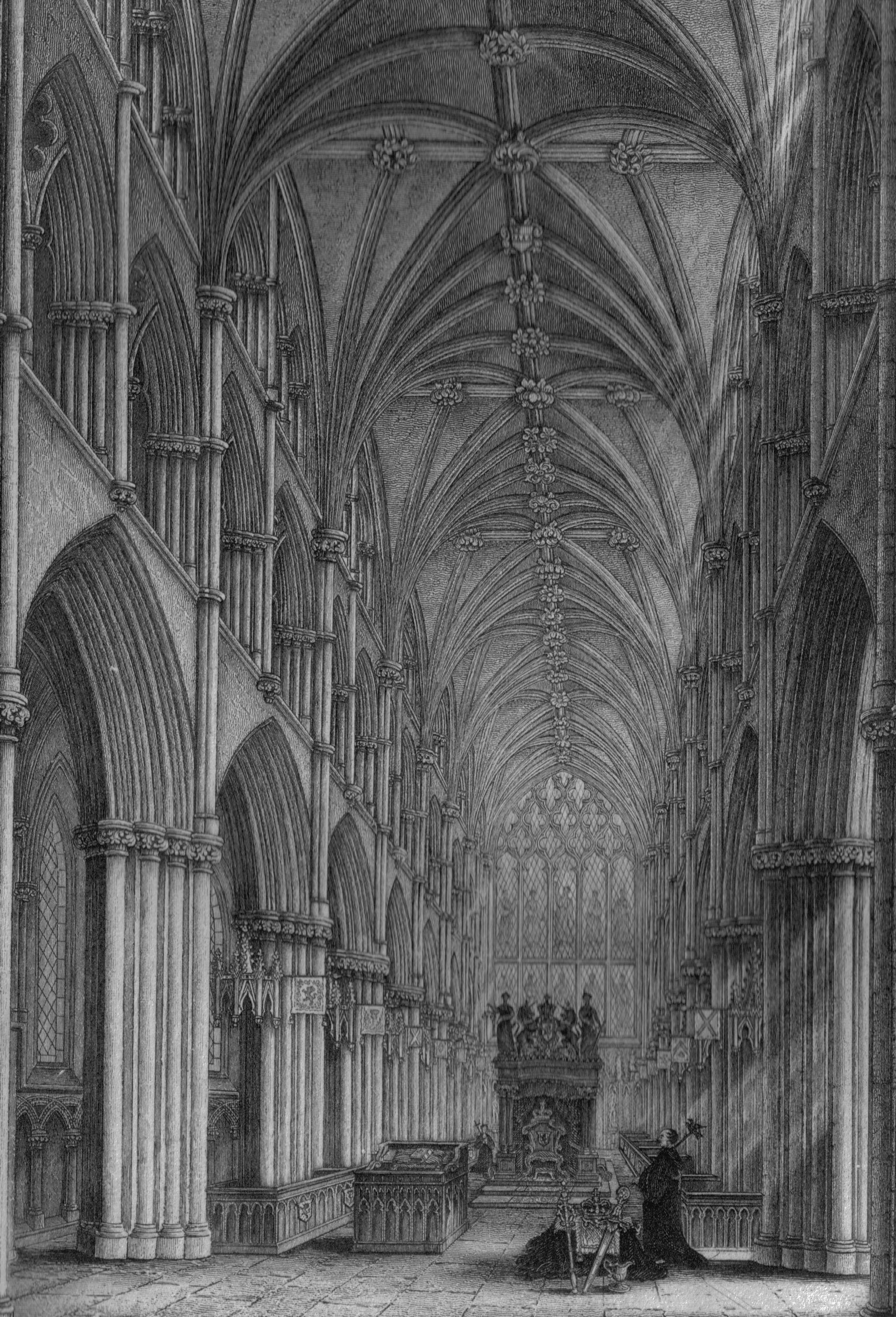 The Chapel Royal at Holyrood Abbey in the reign of James VII of Scotland.